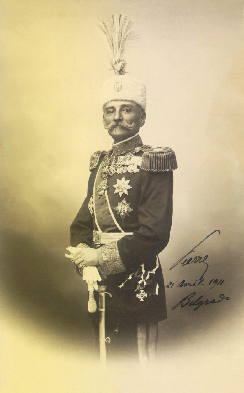 Portrait of Serbian king Peter I (1906)